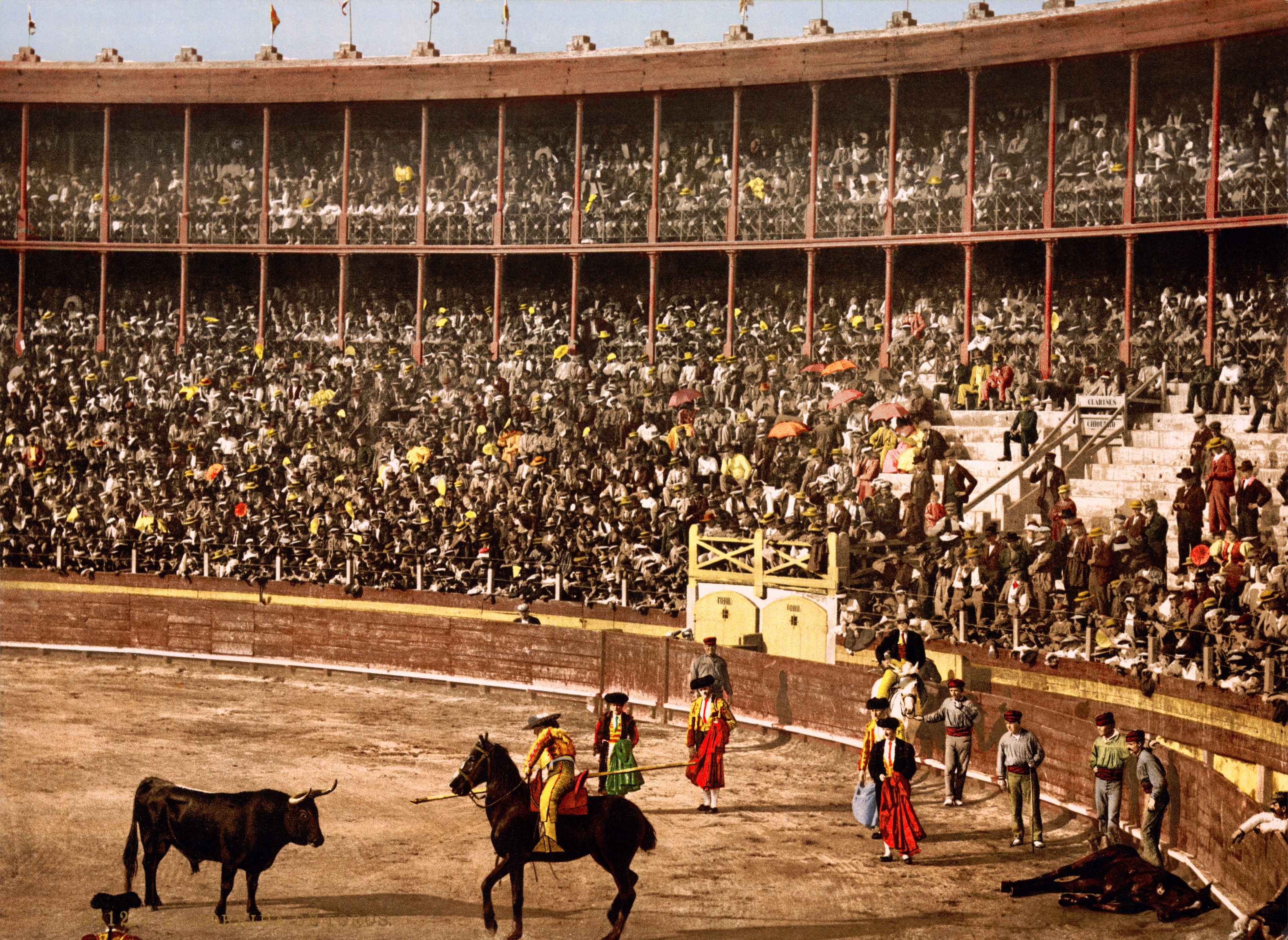 Bullfight in Barcelona, Spain.